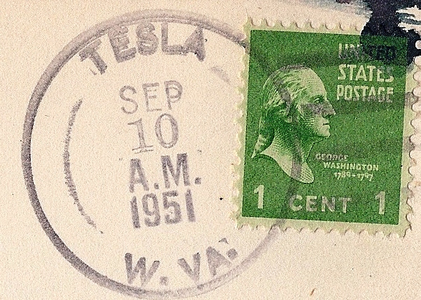 scanned correspondence